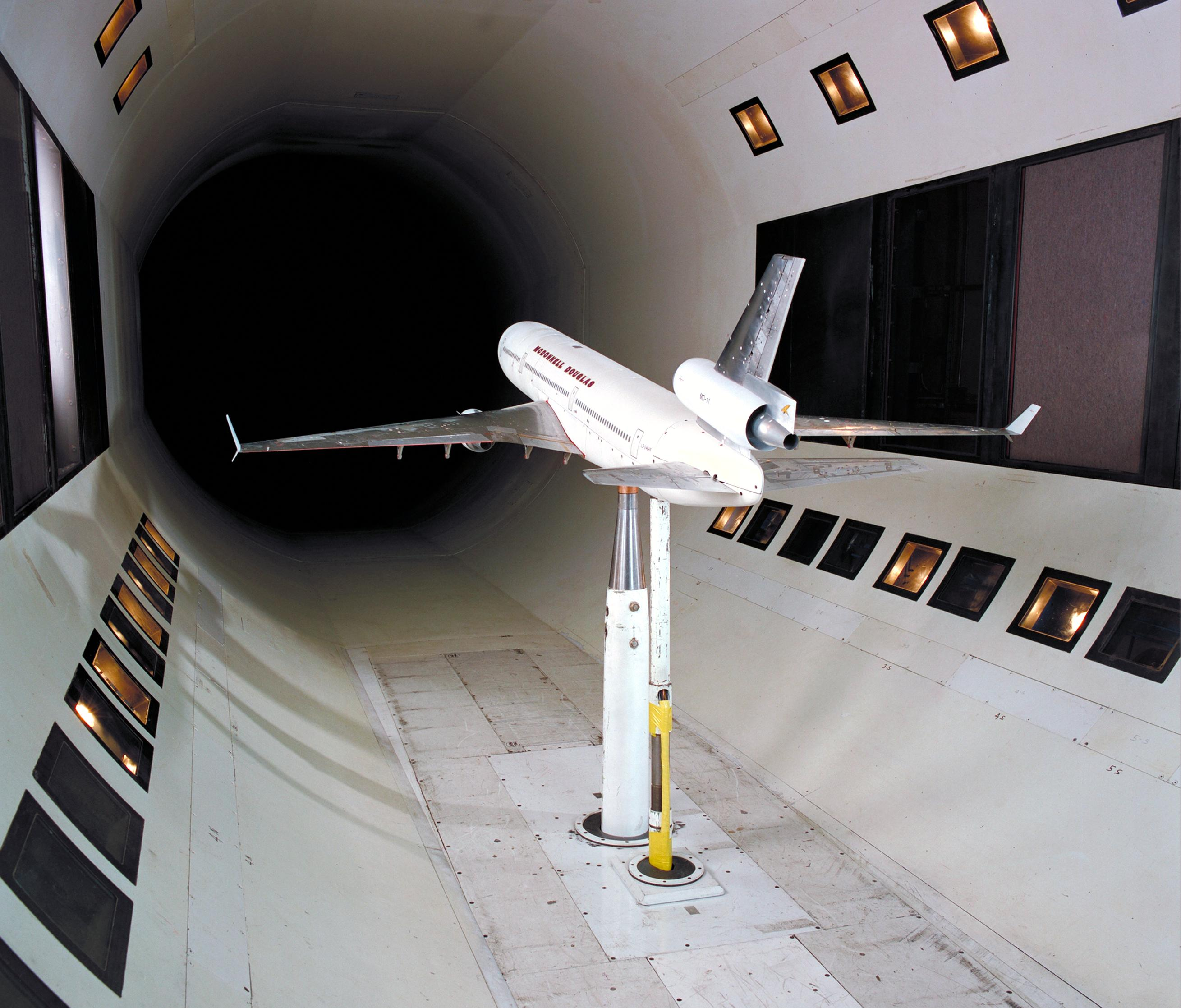 D-11 12ft wind tunnel test-12-0001 rear view of model mounted in test section. Note: this is the first non-NASA customer of the refurbished wind tunnel.